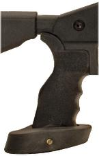 Picture of my 110 BA grip